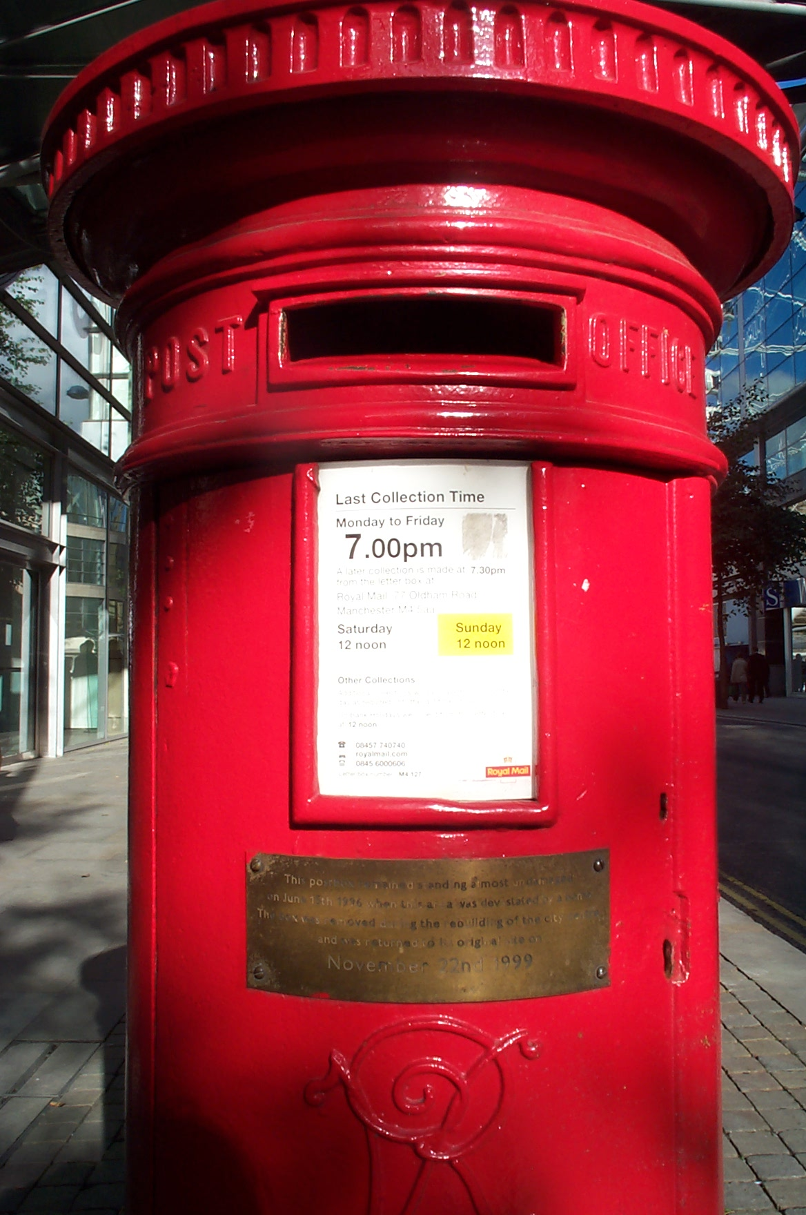 The Manchester bombing memorial postbox in Corporation Street.